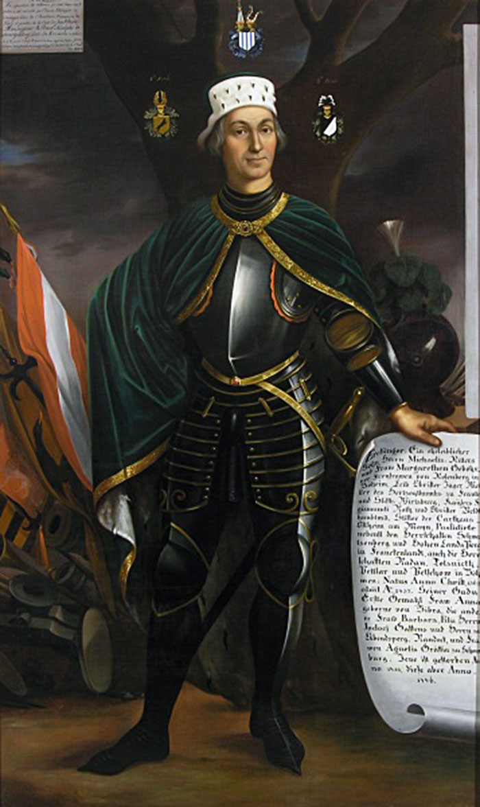 Erkinger ze Seinsheimu na Schwarzenberku